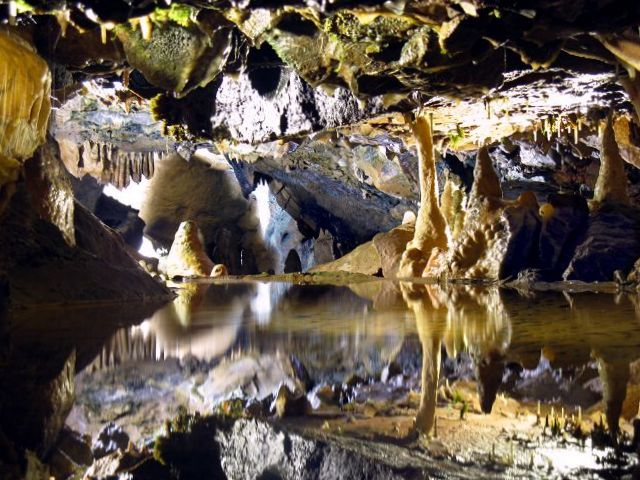 Miniature reflections in Gough's Cave Gough's cave is the more impressive of the caves in the Cheddar Gorge and this amazing feature can be seen through a small horizontal slot early on during the self guided tour. As commented by others the position and direction are just guesses.